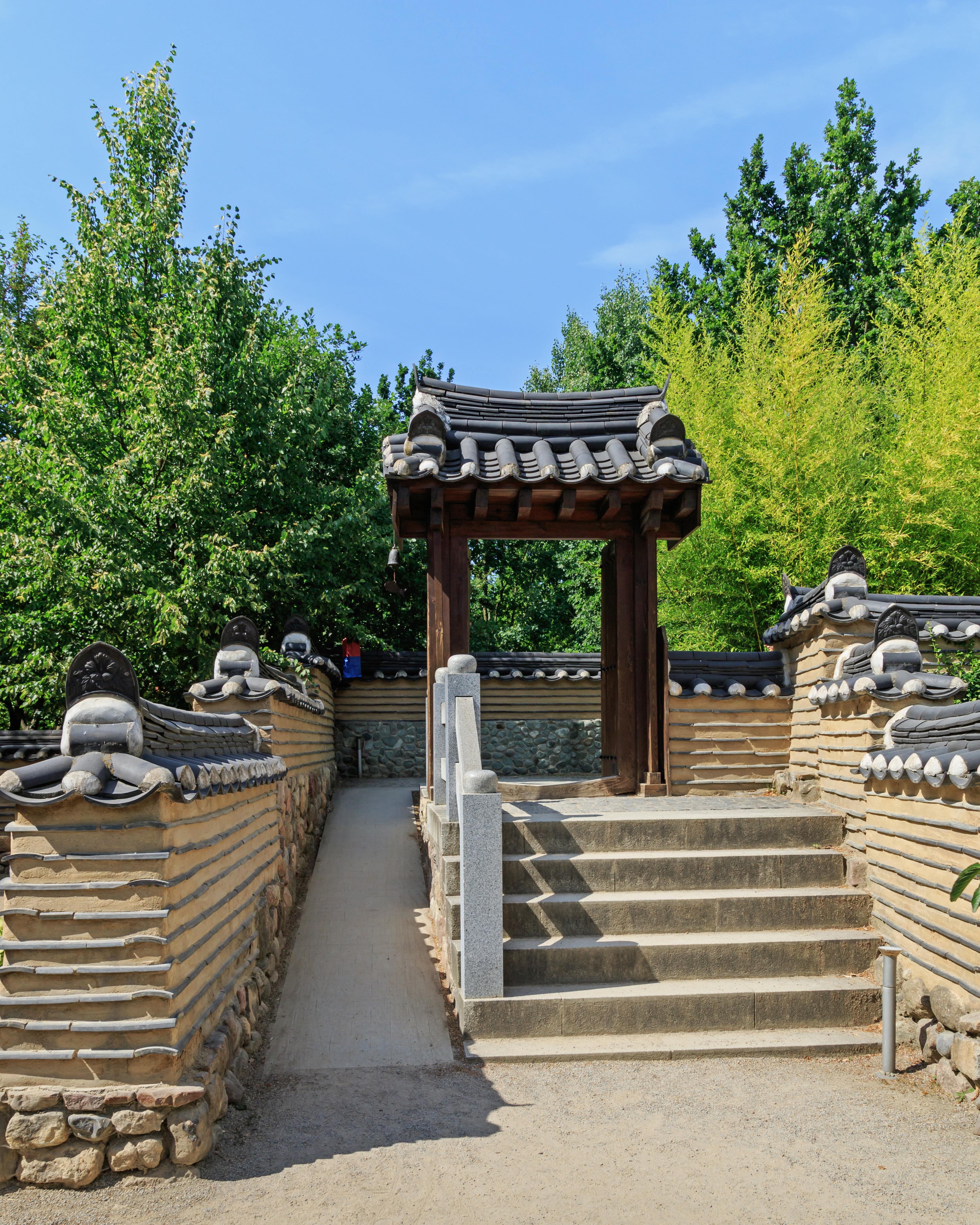 Berlin-Marzahn Gardens of the World: Korean Garden